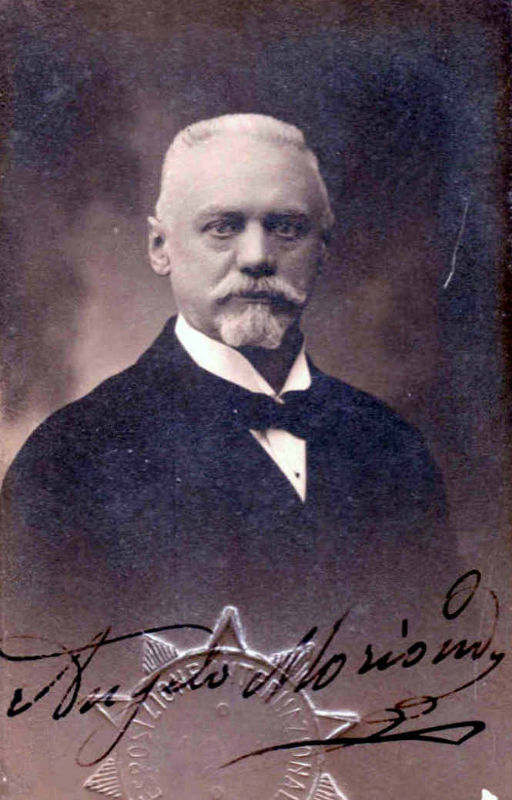 Portrait with original signature of Mr. Angelo Moriondo (Turin, June 6 1851 - Marentino, May 31 1914)who first patented the Espresso Machine on May 16, 1884, titling his invention (patent n. 256 vol. 33 ) "Nuovi apparecchi a vapore per la confezione economica ed istantanea del caffè in bevanda. Sistema A. Moriondo" Ritratto con firma originale del Sig. Angelo Moriondo (Torino, 6 giugno 1851 - Marentino, 31 maggio 1914), che brevettò per primo la macchina per il caffé espresso il 16 maggio 1884, intitolando la sua invenzione (brevetto n. 256 vol. 33) "Nuovi apparecchi a vapore per la confezione economica ed istantanea del caffè in bevanda. Sistema A. Moriondo"